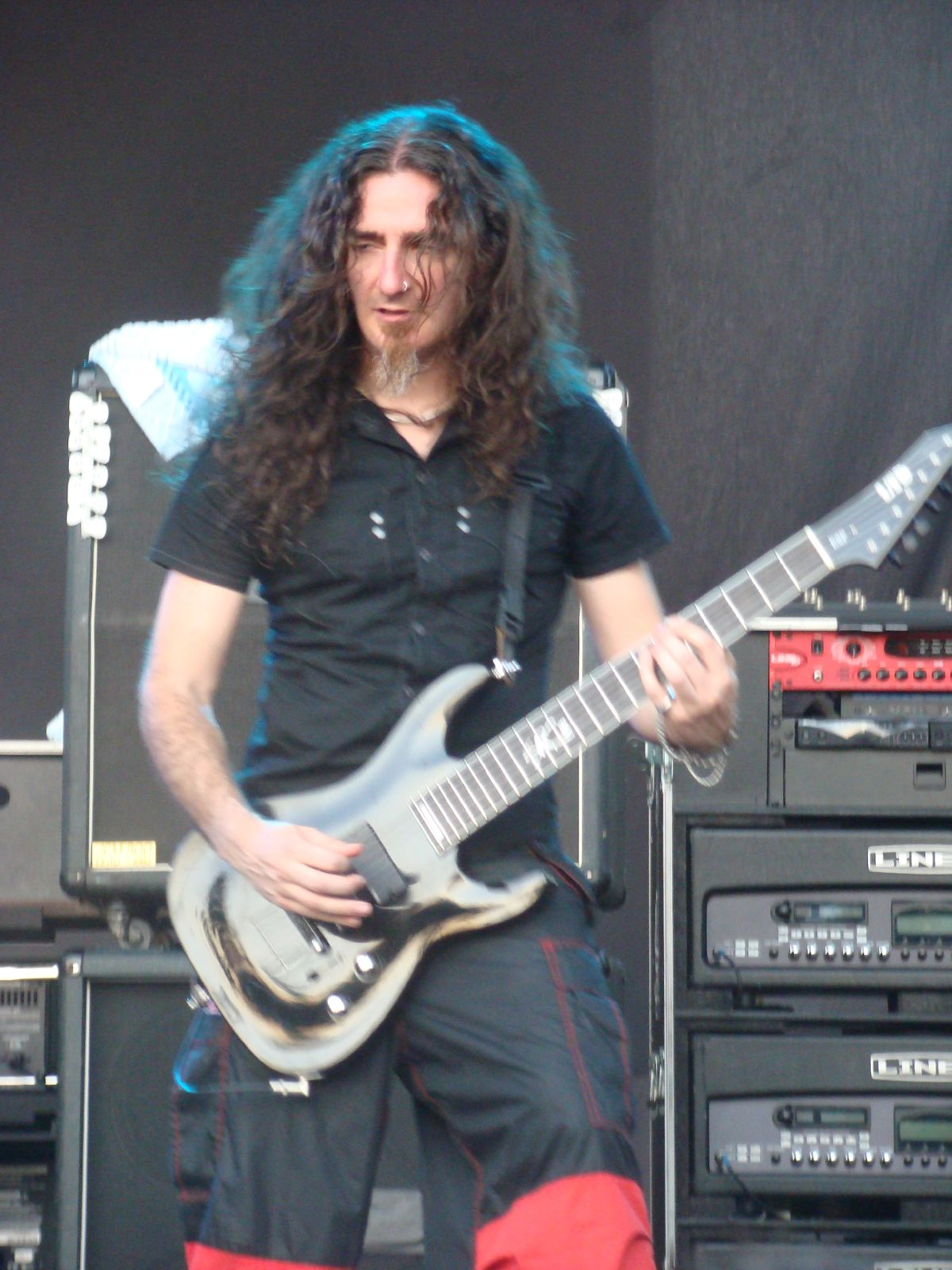 Cristiano "Pizza" Migliore of Lacuna Coil